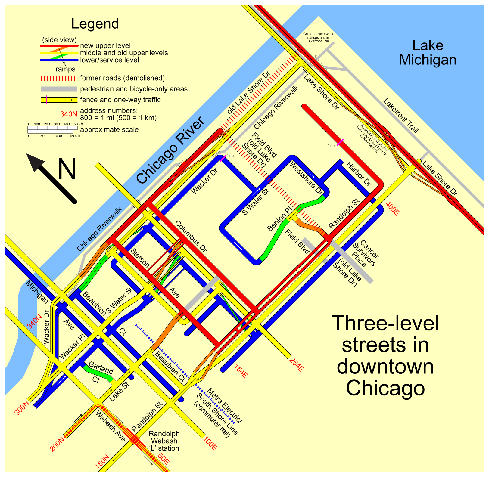 The multilevel streets in downtown Chicago. Thanks a lot to Knowledge Seeker and Dennis McClendon for help.